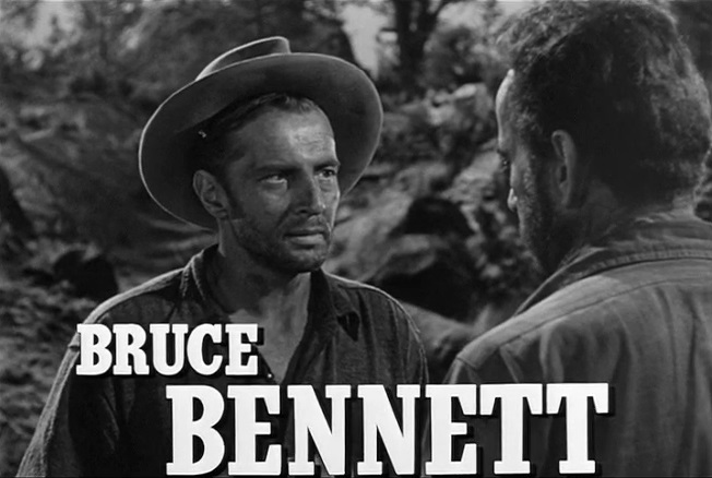 Cropped screenshot of Bruce Bennett from the trailer for the film The Treasure of the Sierra Madre.